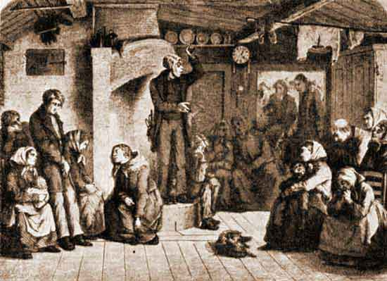 A colporteur in a cabin in Småland, Sweden. Drawing in "Ny Illustrerad Tidning" (1865-1900).